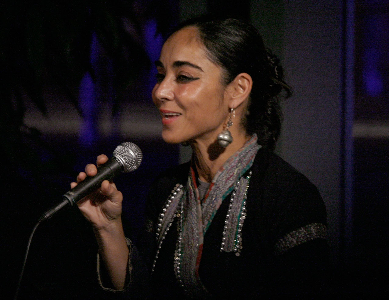 Shirin Neshat at an open discussion about her film Zanan bedun-e mardan (Women without men) during the Vienna International Film Festival 2009.